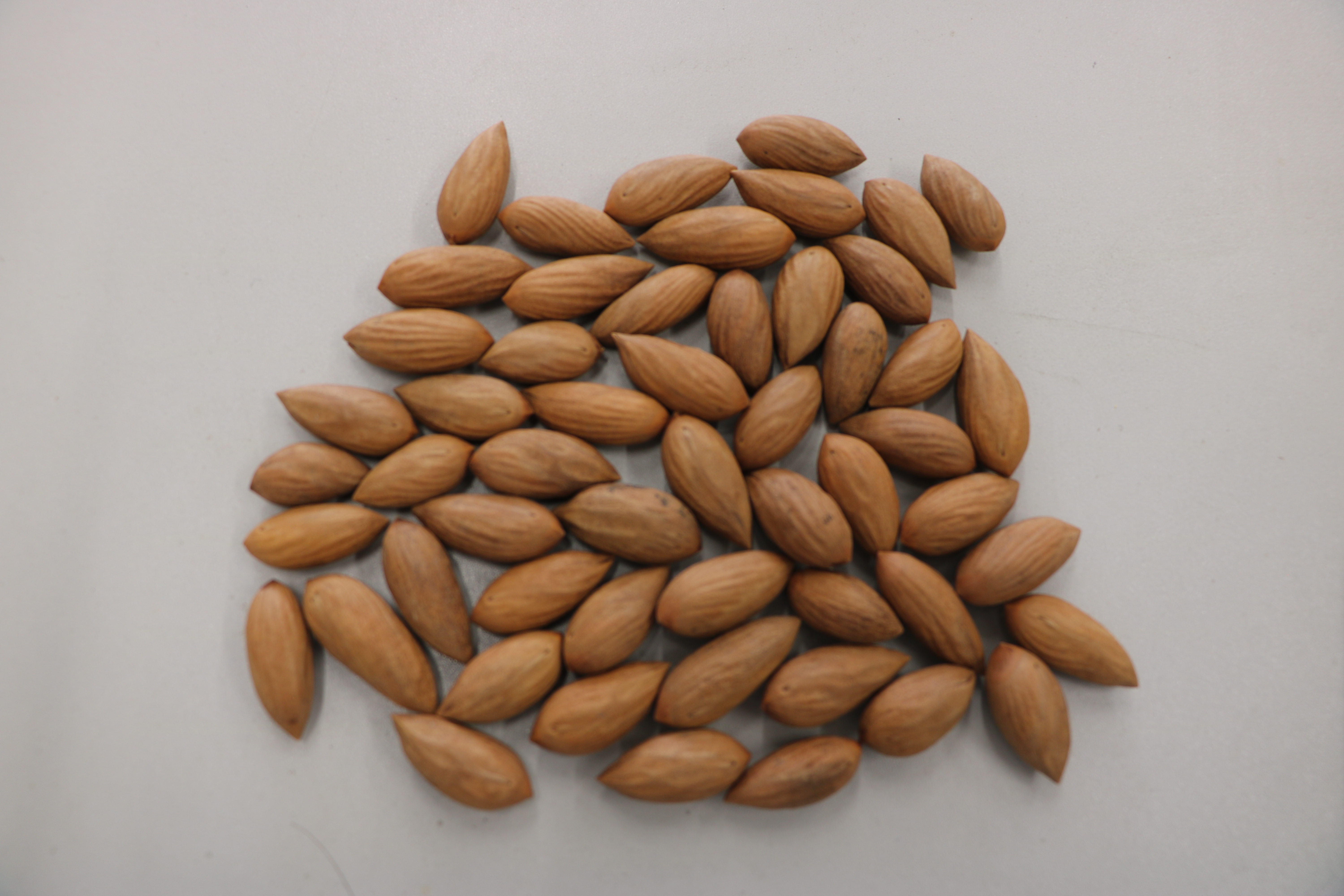 Torreya nucifera tree nut of Takinoya no Hidarimakigaya